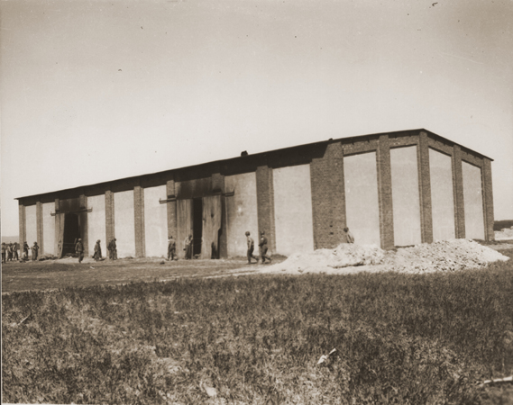 The barn used in the Gardelegen massacre